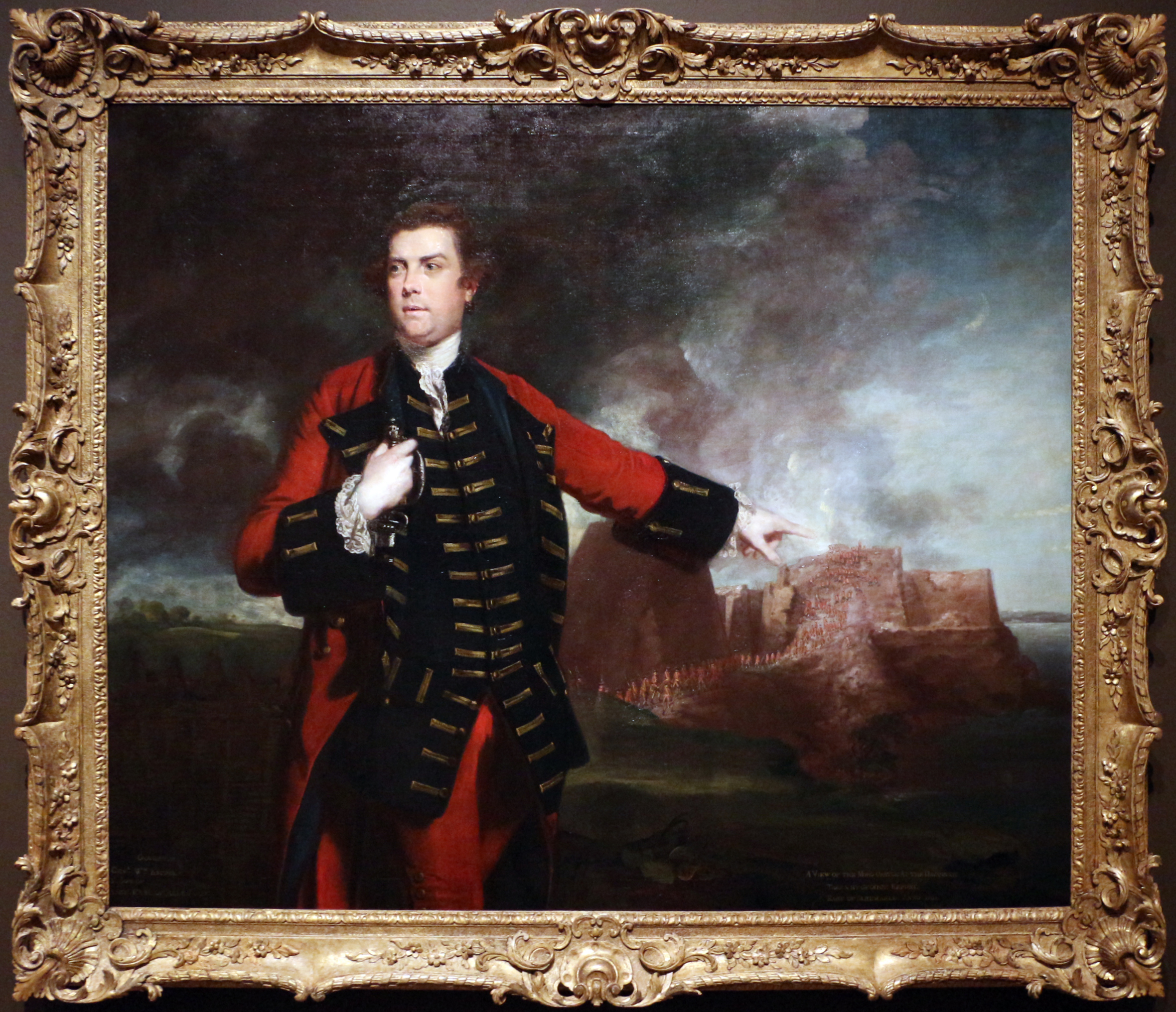 British paintings in the Museu Nacional de Arte Antiga